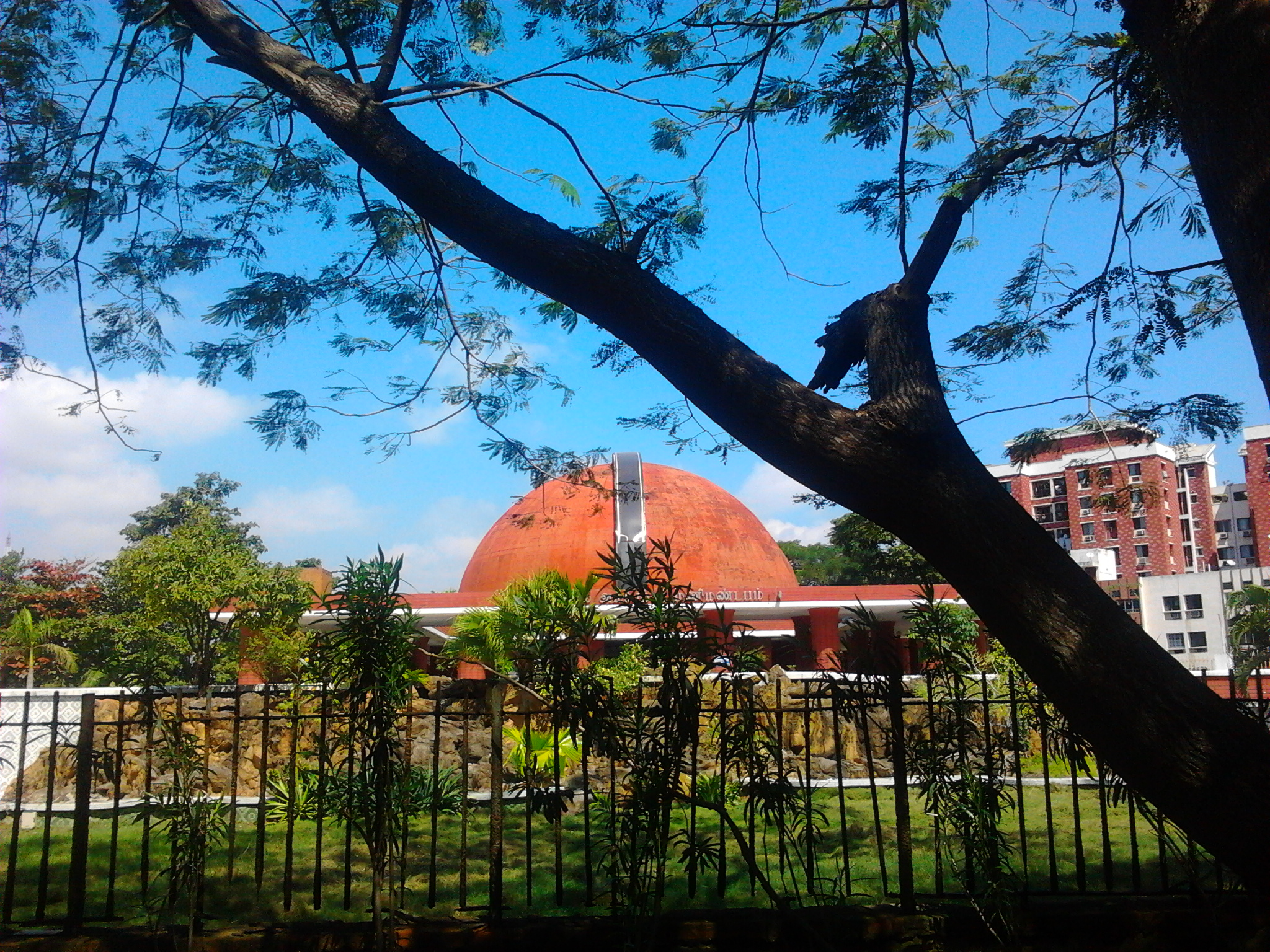 Photoed using Samsung Wave 525.